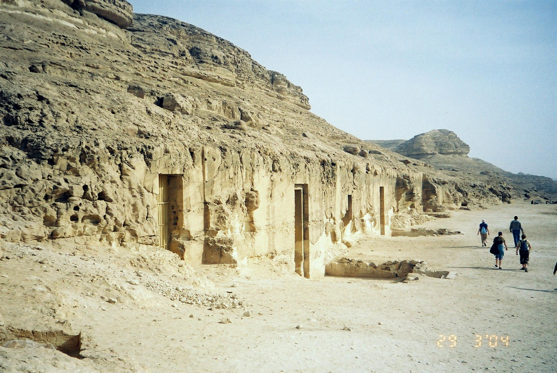 Exterior view of tombs of Khety and Baqet III